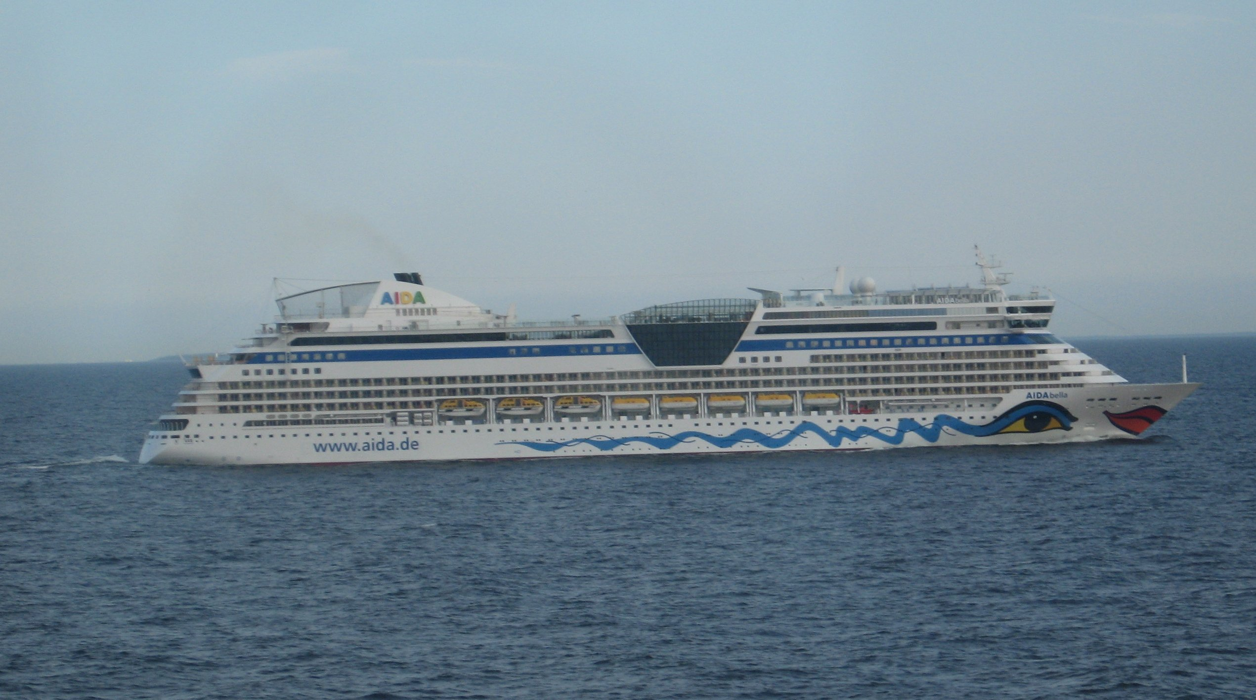 Cruise ship M/S AIDAbella in Baltic Sea.